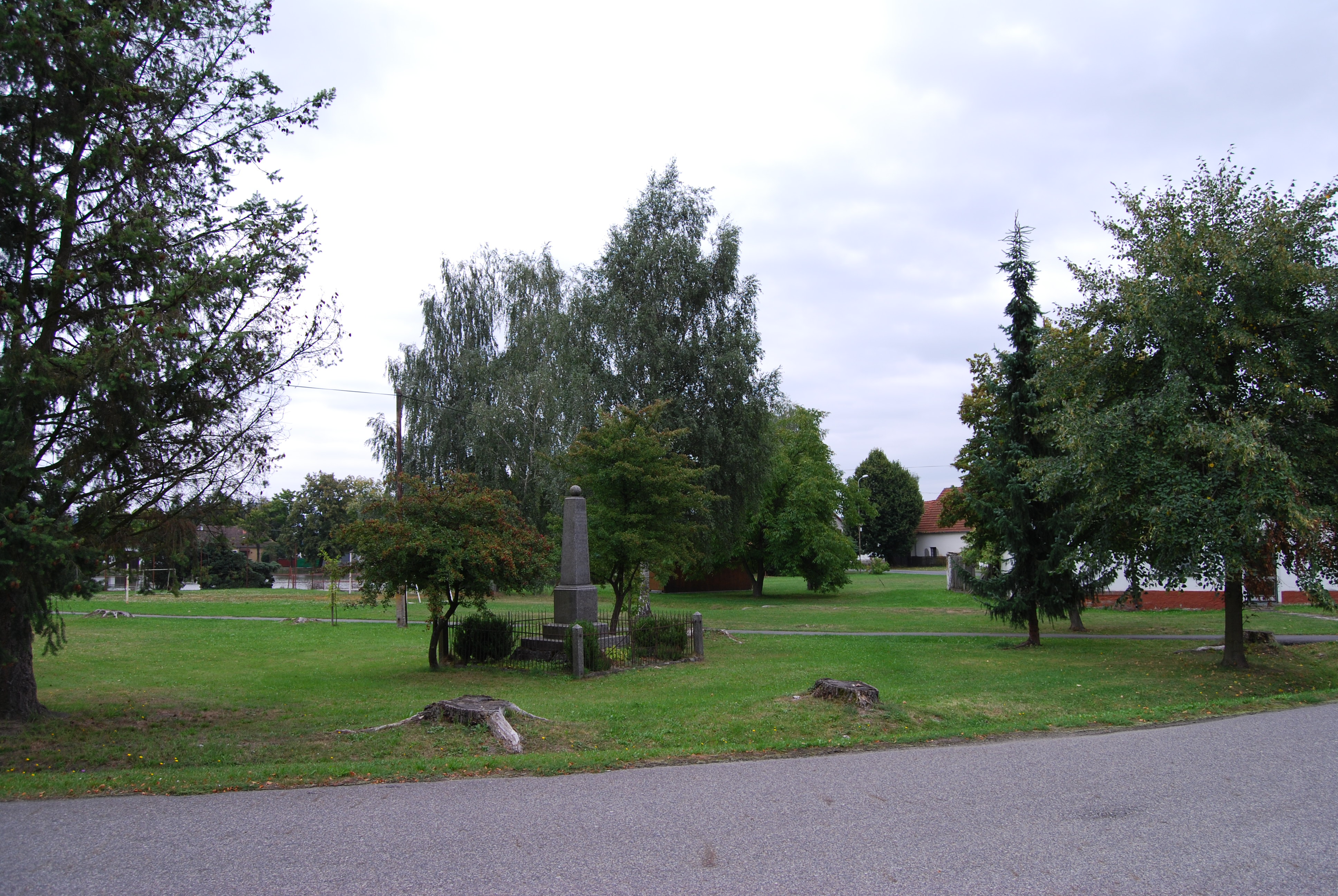 Údraž village part of Albrechtice nad Vltavou village in Pisek District, Czech Republic.